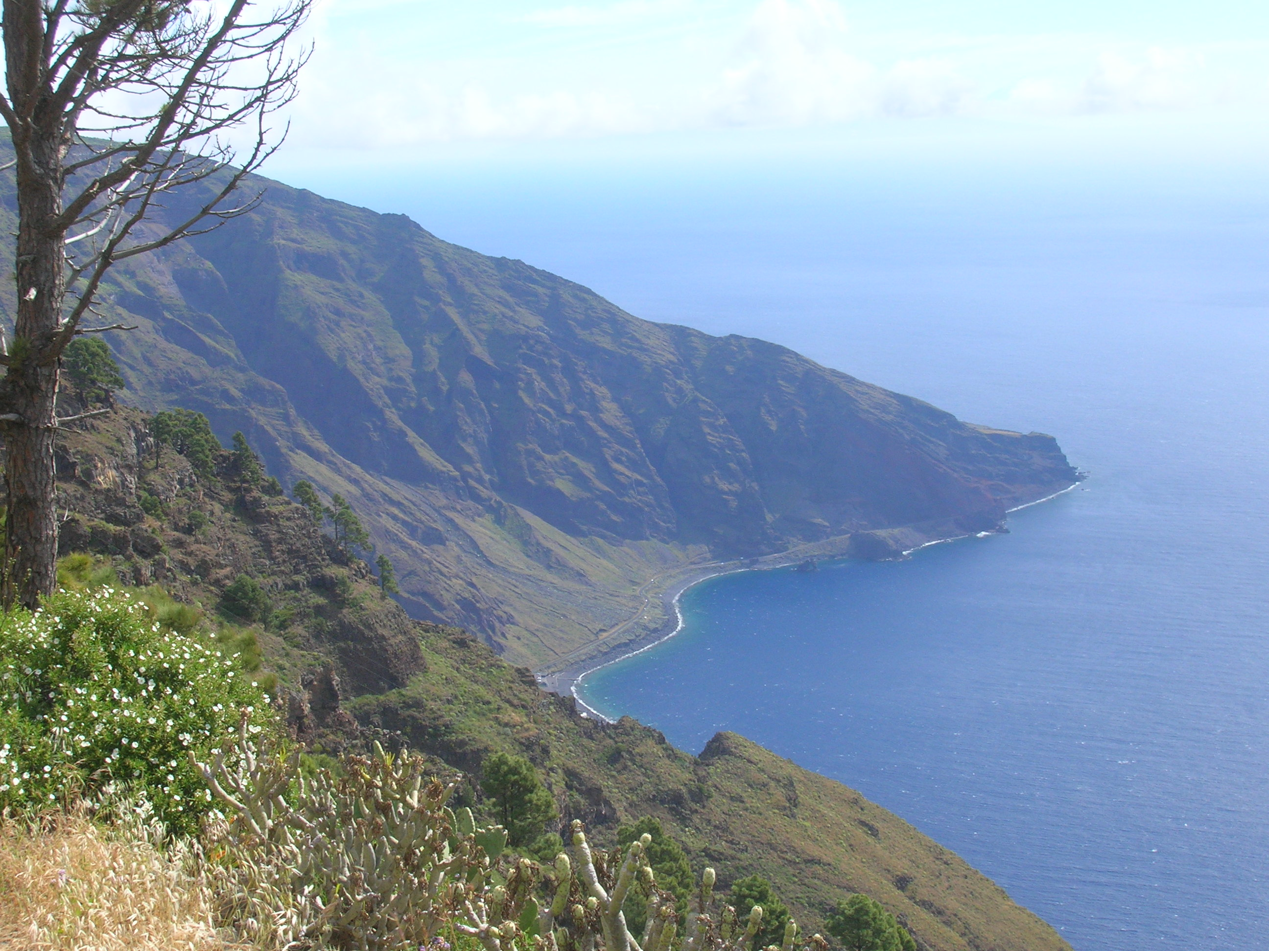 Slope to Las Playas from Las Casas (El Pinar). El Hierro, Canary Islands (Spain).